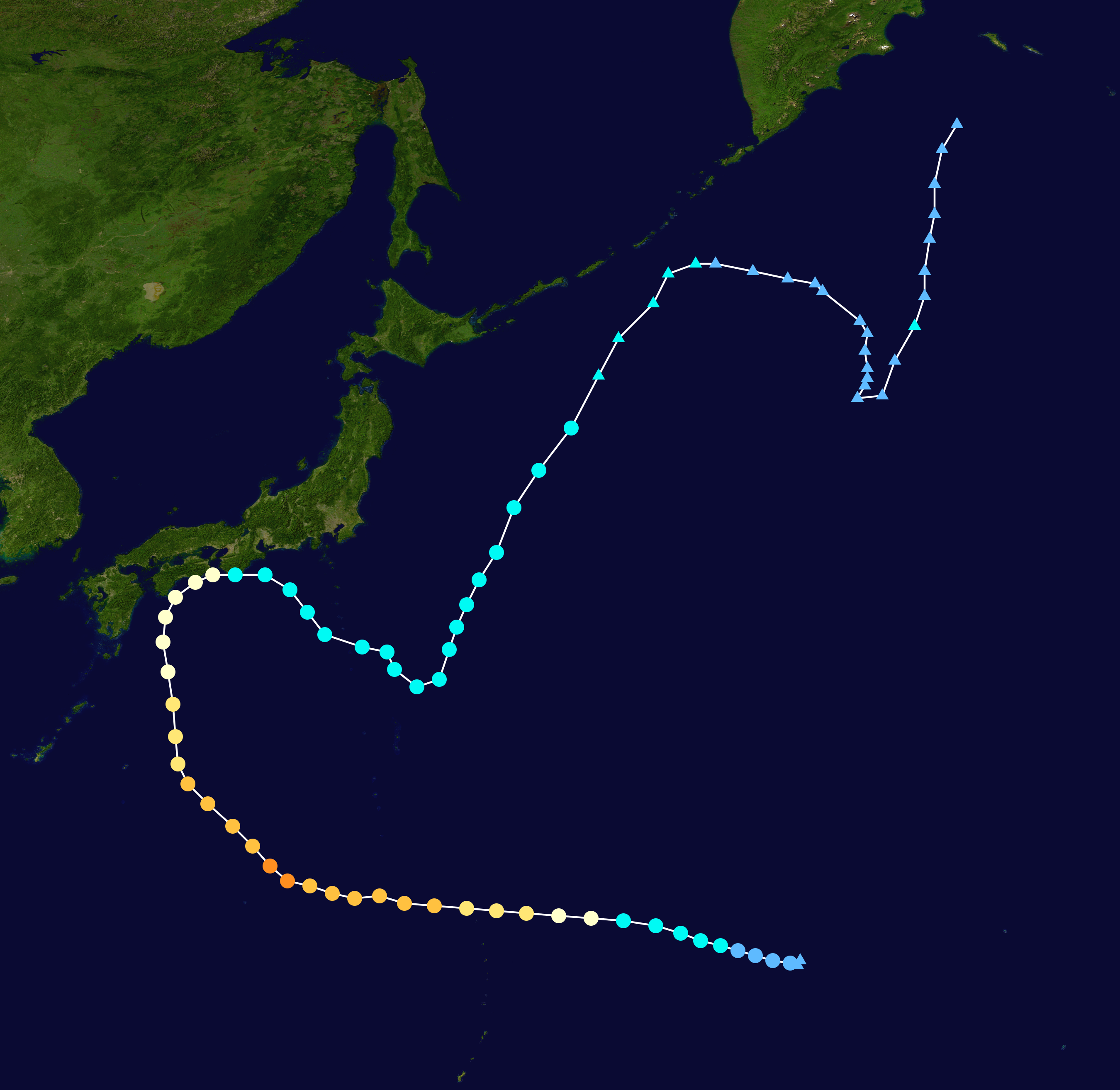 Track map of Typhoon Ma-on of the 2011 Pacific typhoon season. The points show the location of the storm at 6-hour intervals. The colour represents the storm's maximum sustained wind speeds as classified in the Saffir–Simpson scale (see below), and the shape of the data points represent the nature of the storm, according to the legend below. Saffir–Simpson scale Tropical depression≤38 mph≤62 km/h Category 3111–129 mph178–208 km/h Tropical storm39–73 mph63–118 km/h Category 4130–156 mph209–251 km/h Category 174–95 mph119–153 km/h Category 5≥157 mph≥252 km/h Category 296–110 mph154–177 km/h Unknown Storm type Tropical cyclone Subtropical cyclone Extratropical cyclone / Remnant low / Tropical disturbance / Monsoon depression